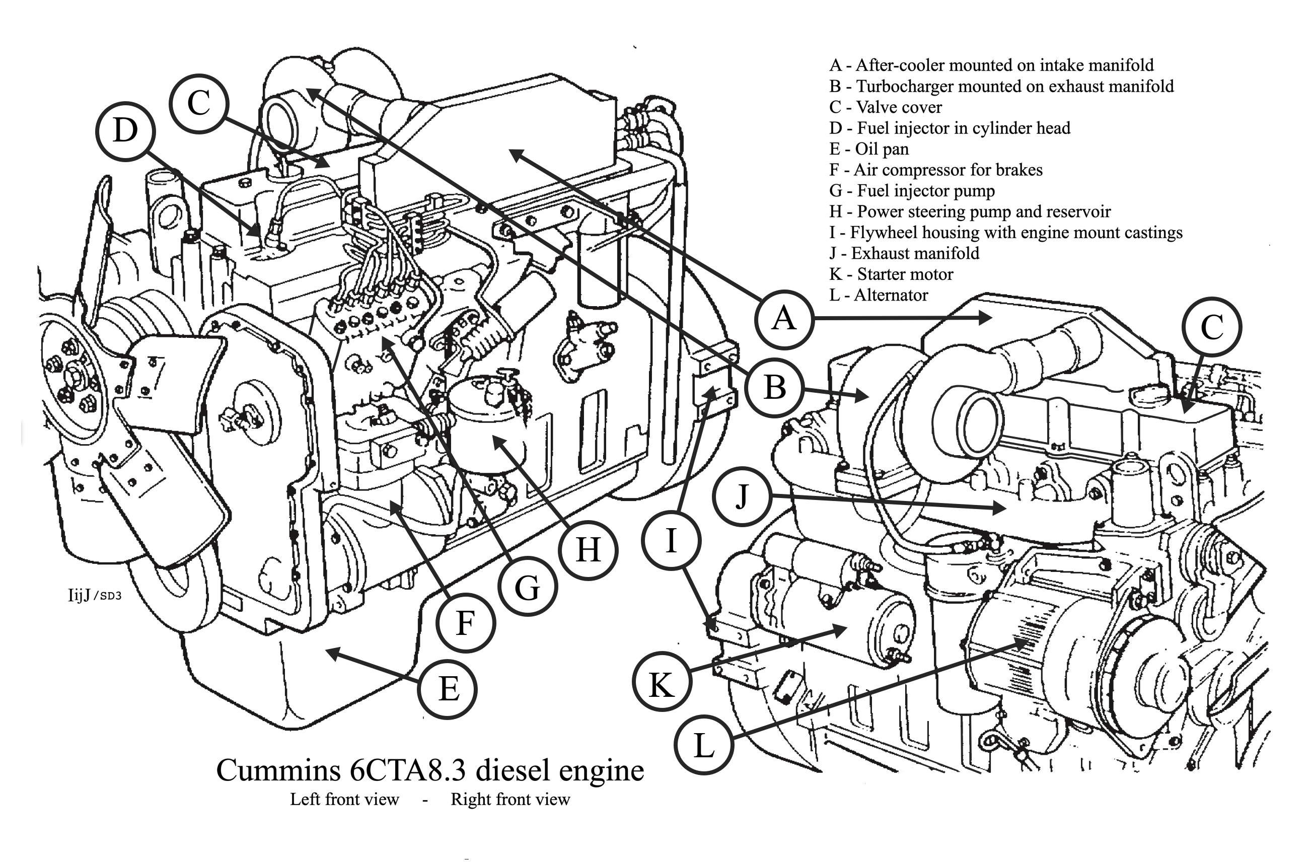 Cummins 6CTA8.3 diesel engine drawing from a US Army Technical Manual. Drawing has been re-touched